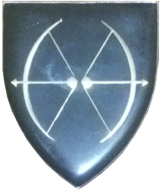 SADF 31 Battalion shoulder flash